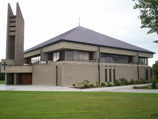 Saint John the Baptist Roman Catholic Church in the townland of Ballyoran in Portadown, County Armagh.